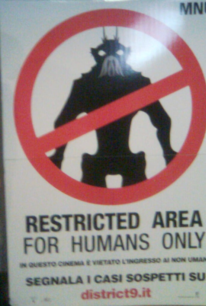 A photo of a promotional picture at the entrance of a cinema